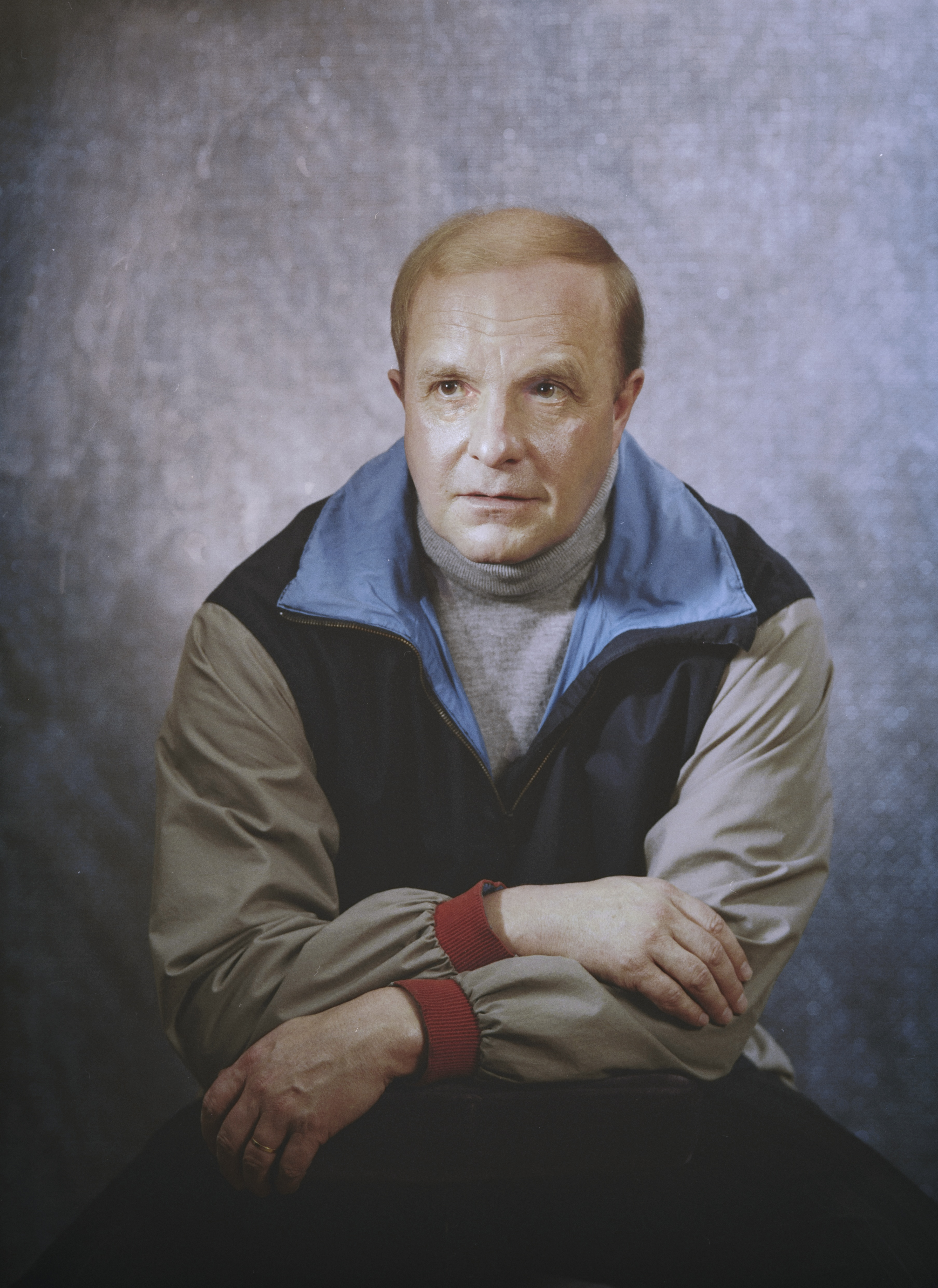 Photograph of the Finnish writer Tapani Riekkinen (1937–).